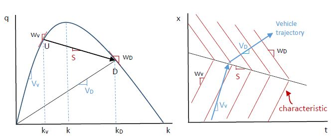 Riemann Problem fundamental diagram